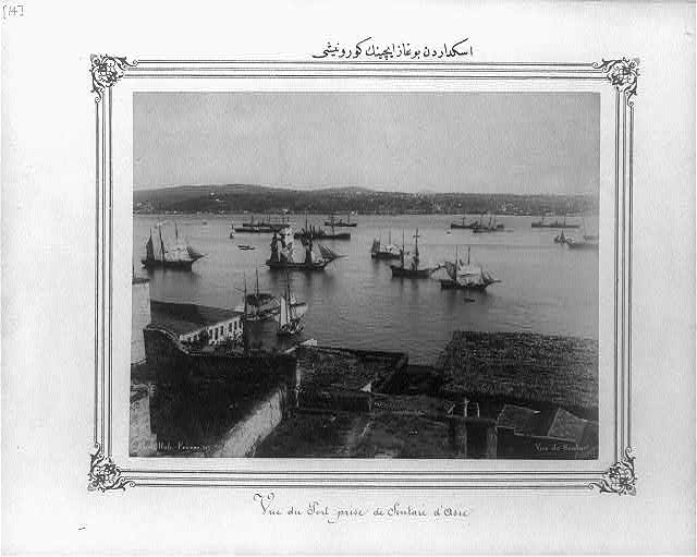 View of the Bosporus from Üsküdar between 1880 and 1893